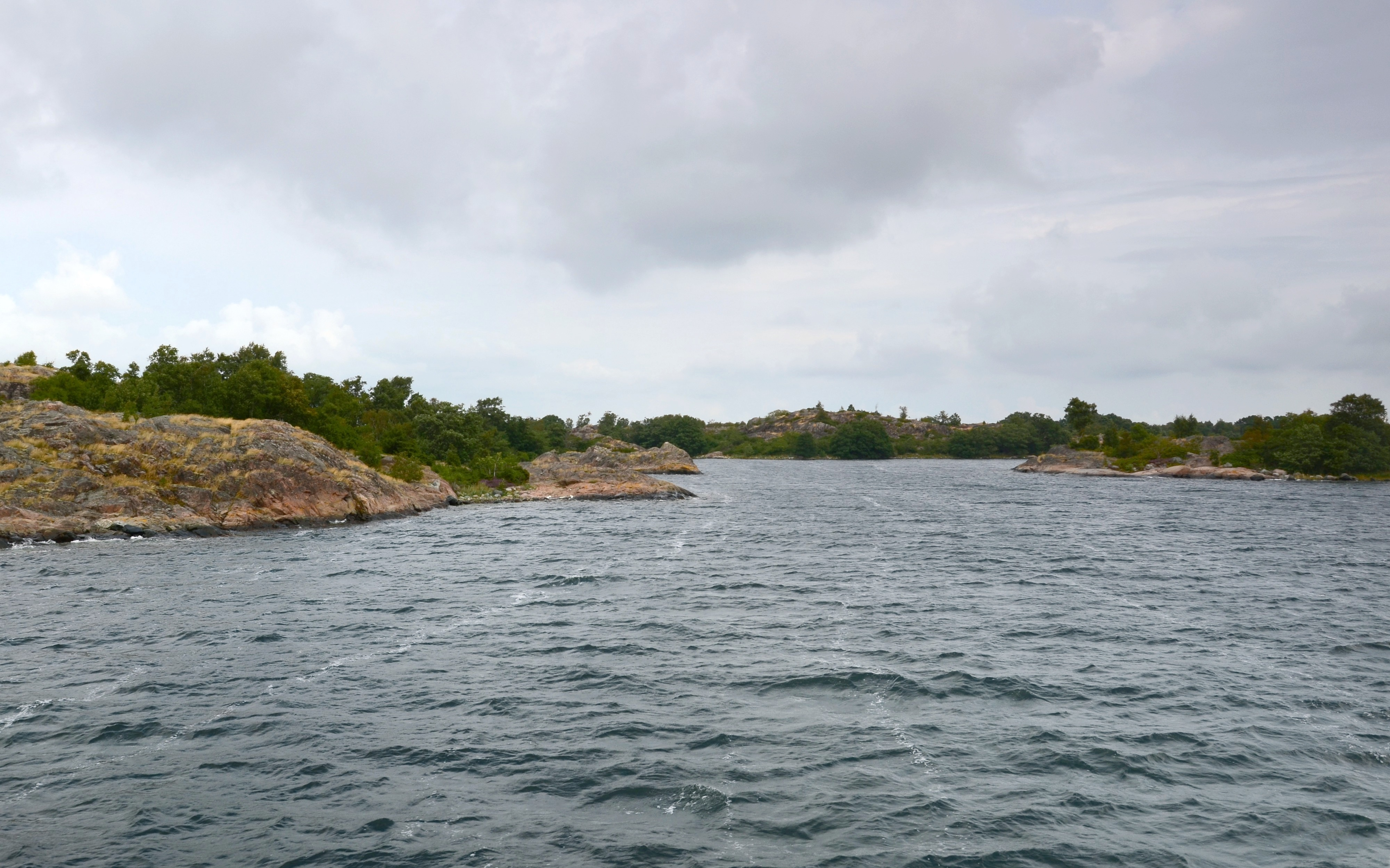 The natural haven between Hummelskär and Söderö by Långviksskär in the Stockholm archipelago.